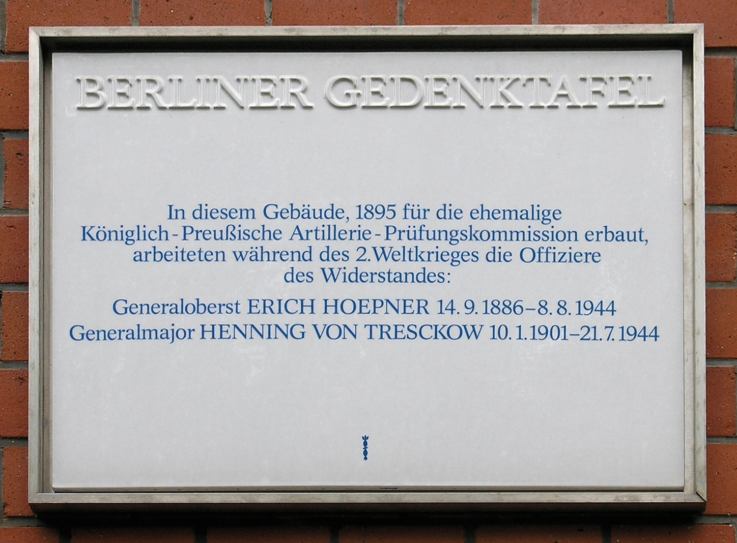 Berlin memorial plaque, Erich Hoepner and Henning von Tresckow, Bundesallee 216, Berlin-Wilmersdorf, Germany